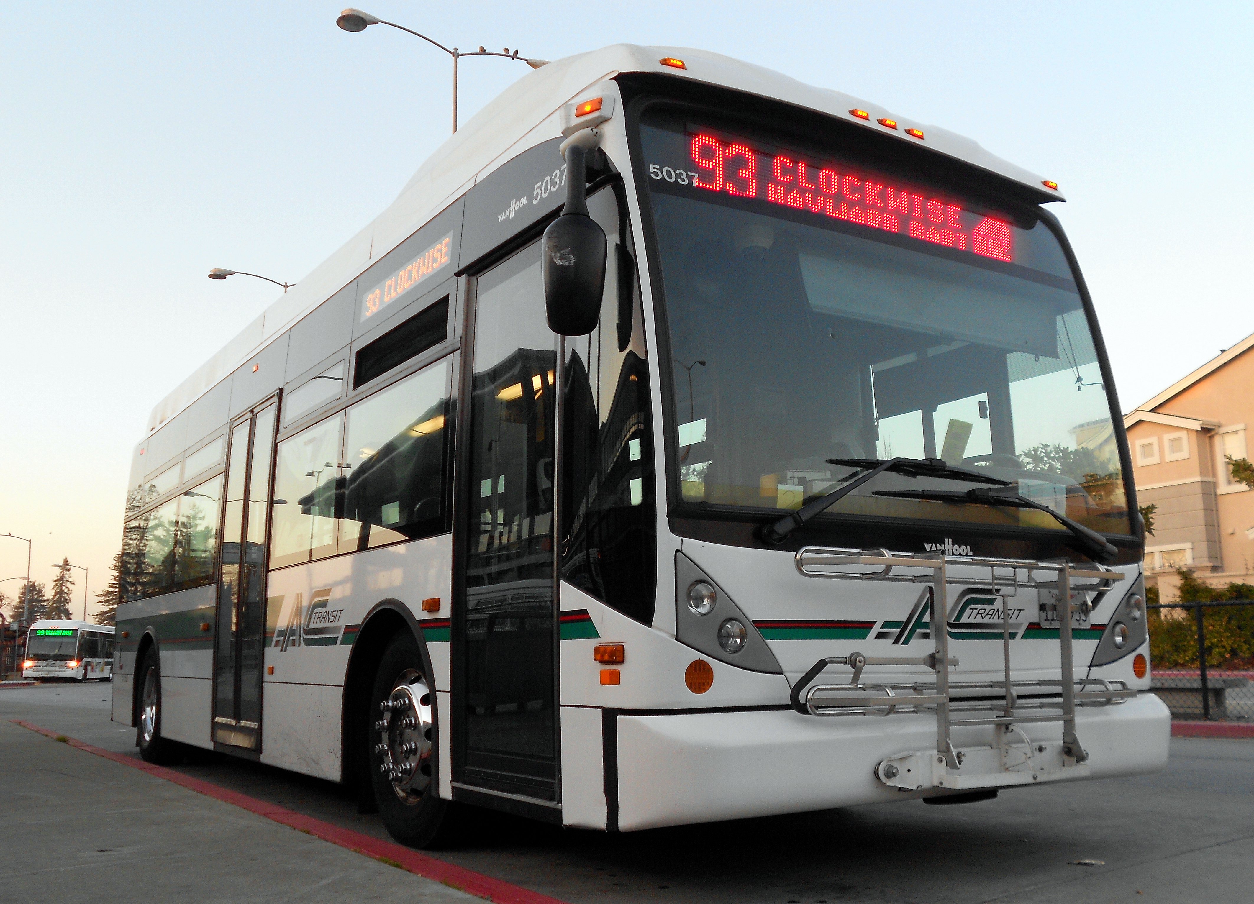 AC Transit 5037